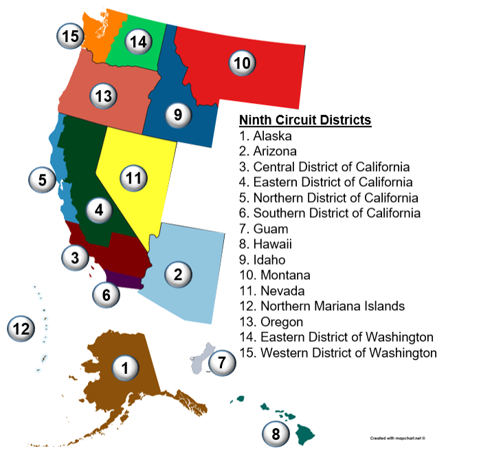 Map of the 15 Districts of the Ninth Circuit